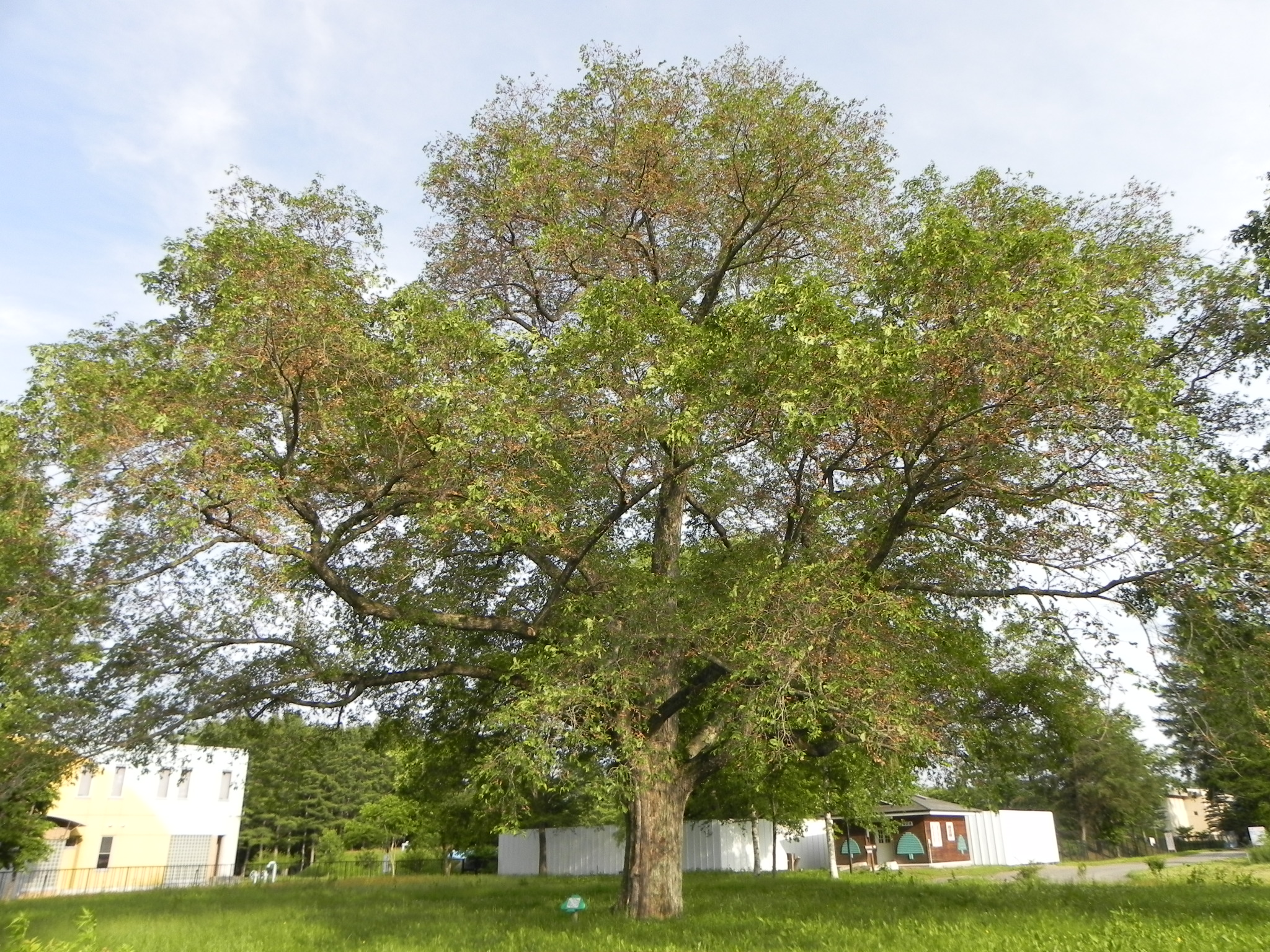 Ulmus davidiana var. japonica tree in Obihiro, Hokkaido, Japan.